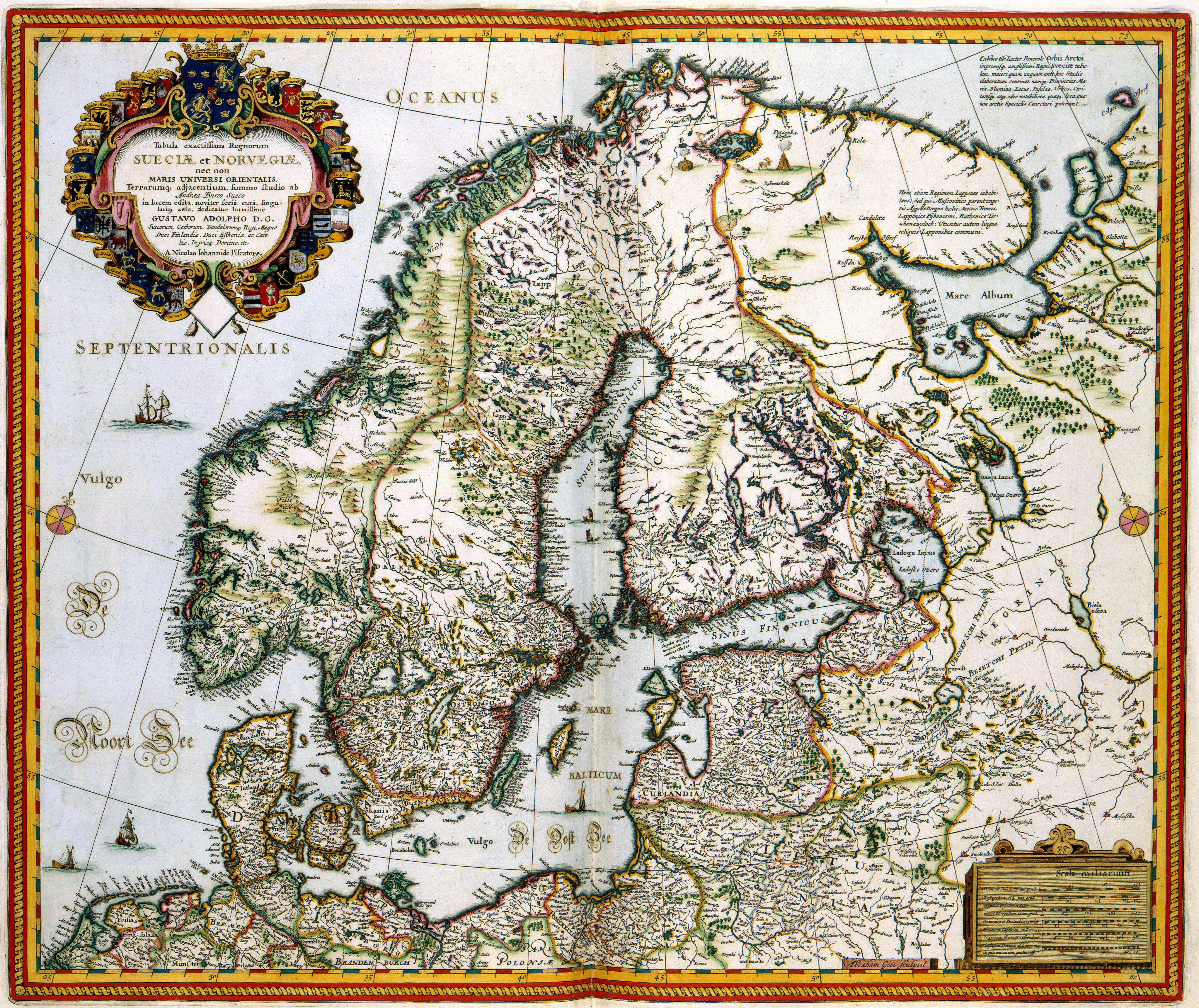 Unlike Norway that was part of the kingdom of Denmark until 1814, Sweden was an independent state from 1523 onwards. This map was composed by the surveyor and mathematician Anders Bureus (1571-1661). Between 1611 and 1626 Bureus produced several large maps of Sweden. In 1626 he prepared a large wall map of the complete territory of Scandinavia in six sheets. In 1656 the Amsterdam engraver Abraham Goos (deceased c. 1643) composed this map using the wall map. Claes Jansz. Visscher (1587-1652) published the map.